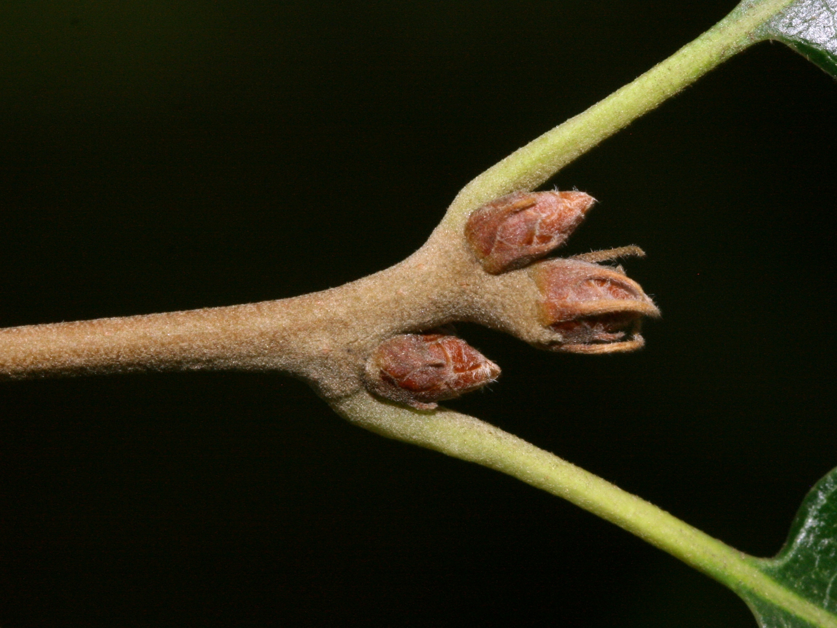 Buds of Quercus libani, Arboretum in Brno, Czech Republic